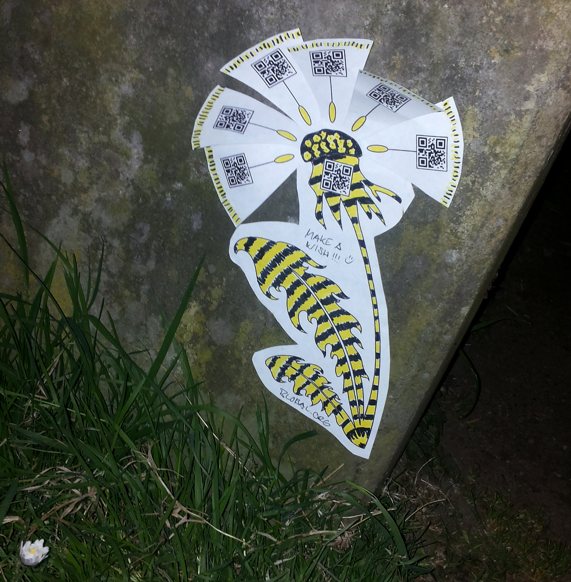 Viral blowball graffito at the border triangle Aachen. Created by the Embassy to Munich and among blowballs of the Lithuanian artist republic Užupis.